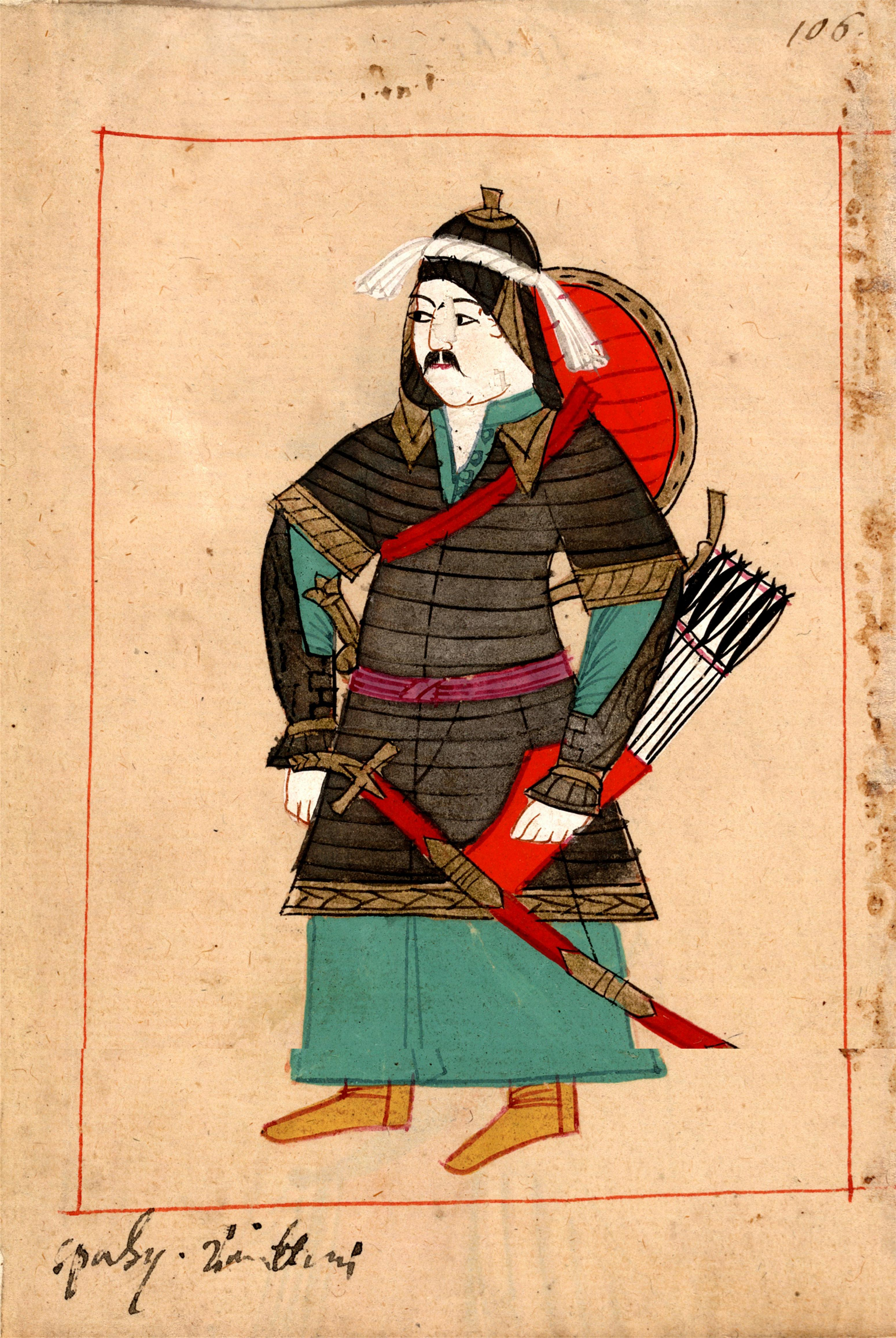 Sipahi (light turkish cavalery) from Ralamb Costume Book. Miniatures in Indian ink with gouache and some gilding. They were acquired in Constantinople in 1657-58 by Claes Rålamb who led a Swedish embassy.[1]